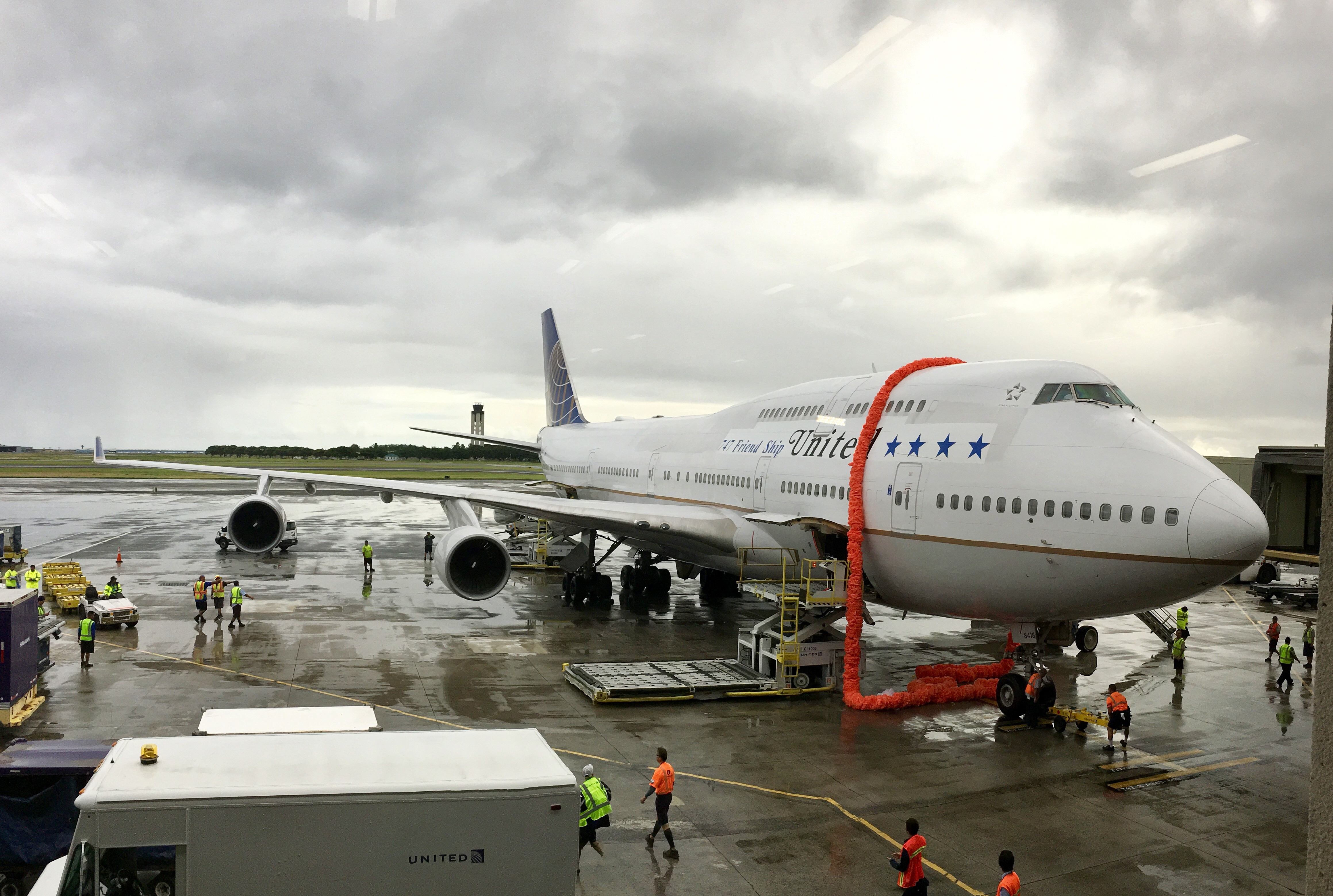 United Airlines last Boeing 747-400 (N118UA) at Honolulu International airport after its final flight from San Francisco on 7 November 2017.